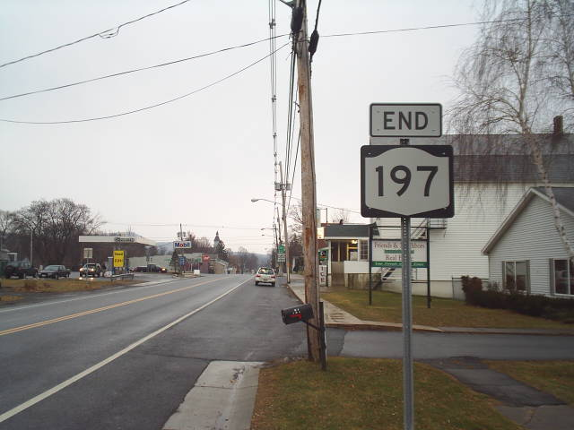 New York State Route 197 approaching its western terminus of New York State Route 40 in the village of Argyle.